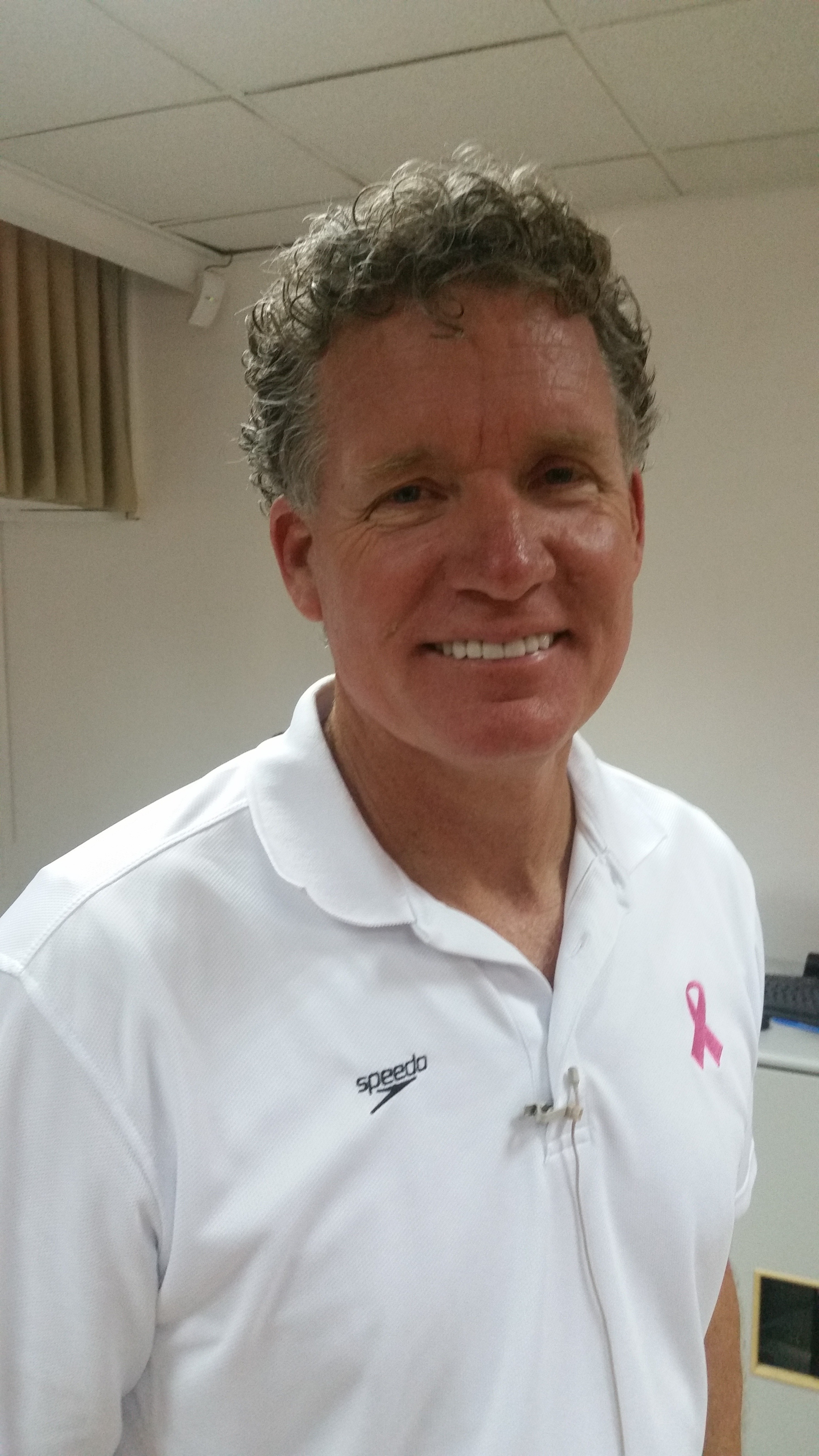 David Marsh, a lecture at the conference coaches at Wingate, September 2016